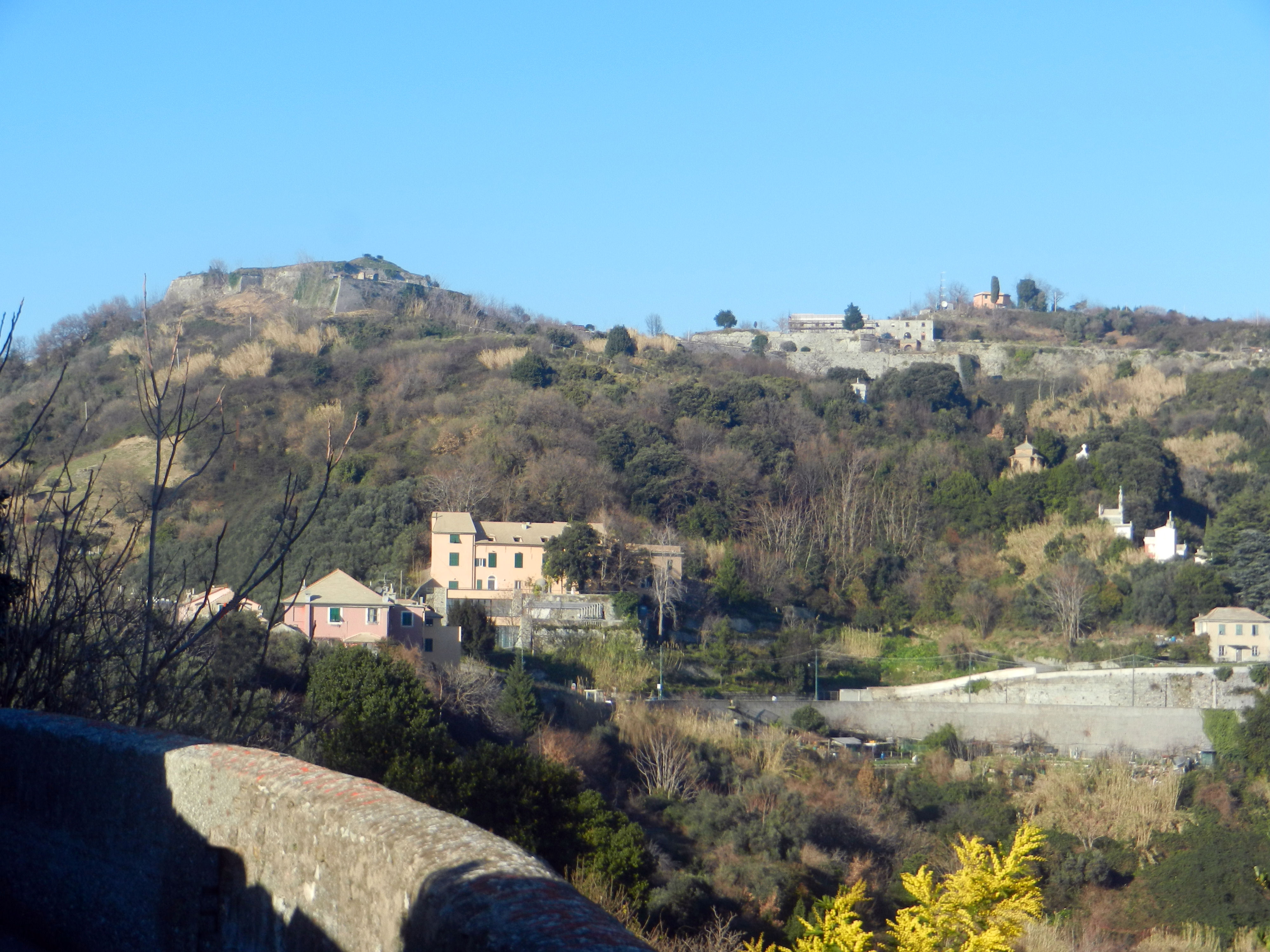 Fortresses of Genoa (Italy), Fort Tenaglia seen from Promontorio